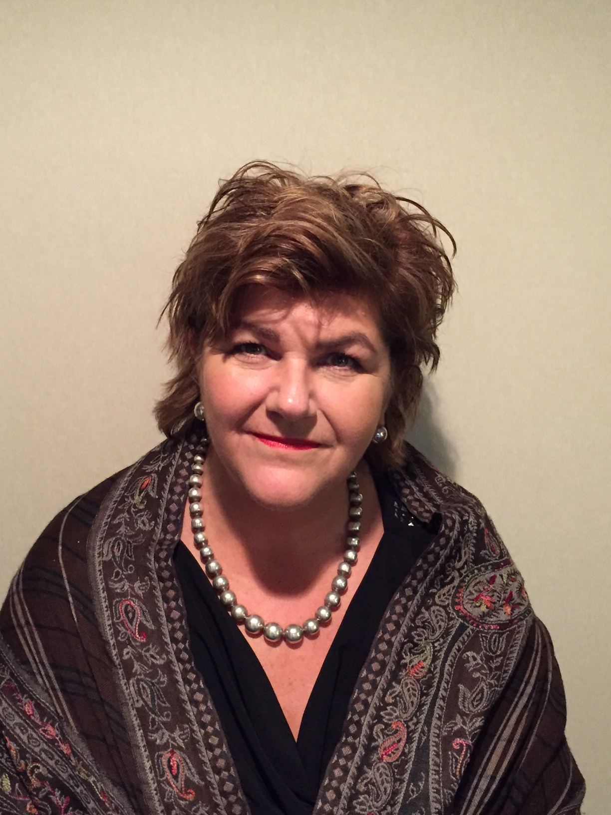 MP Gudie Hutchings in November 2016